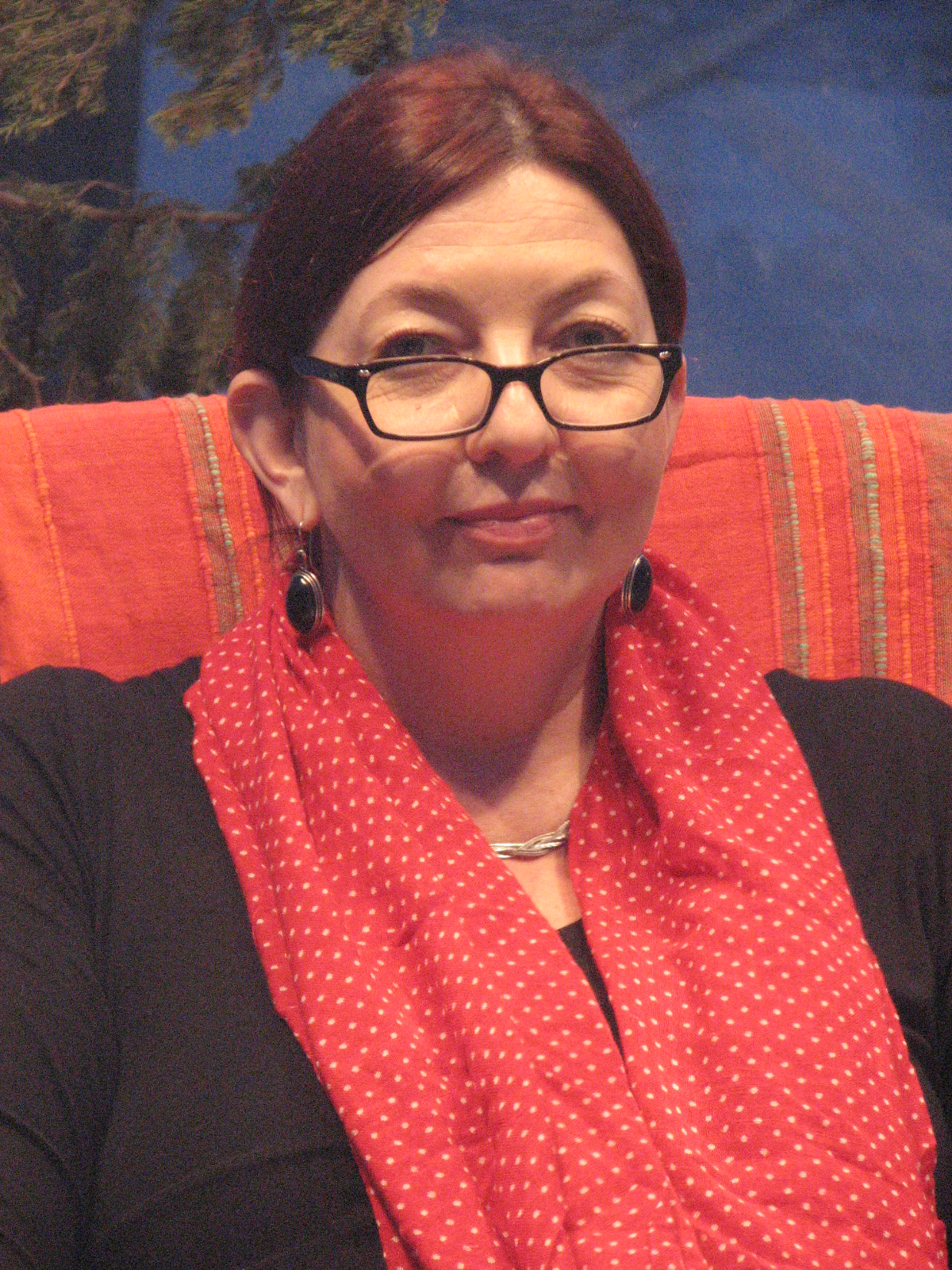 Lilja Blumenfeld is Estonian theatre decorator.